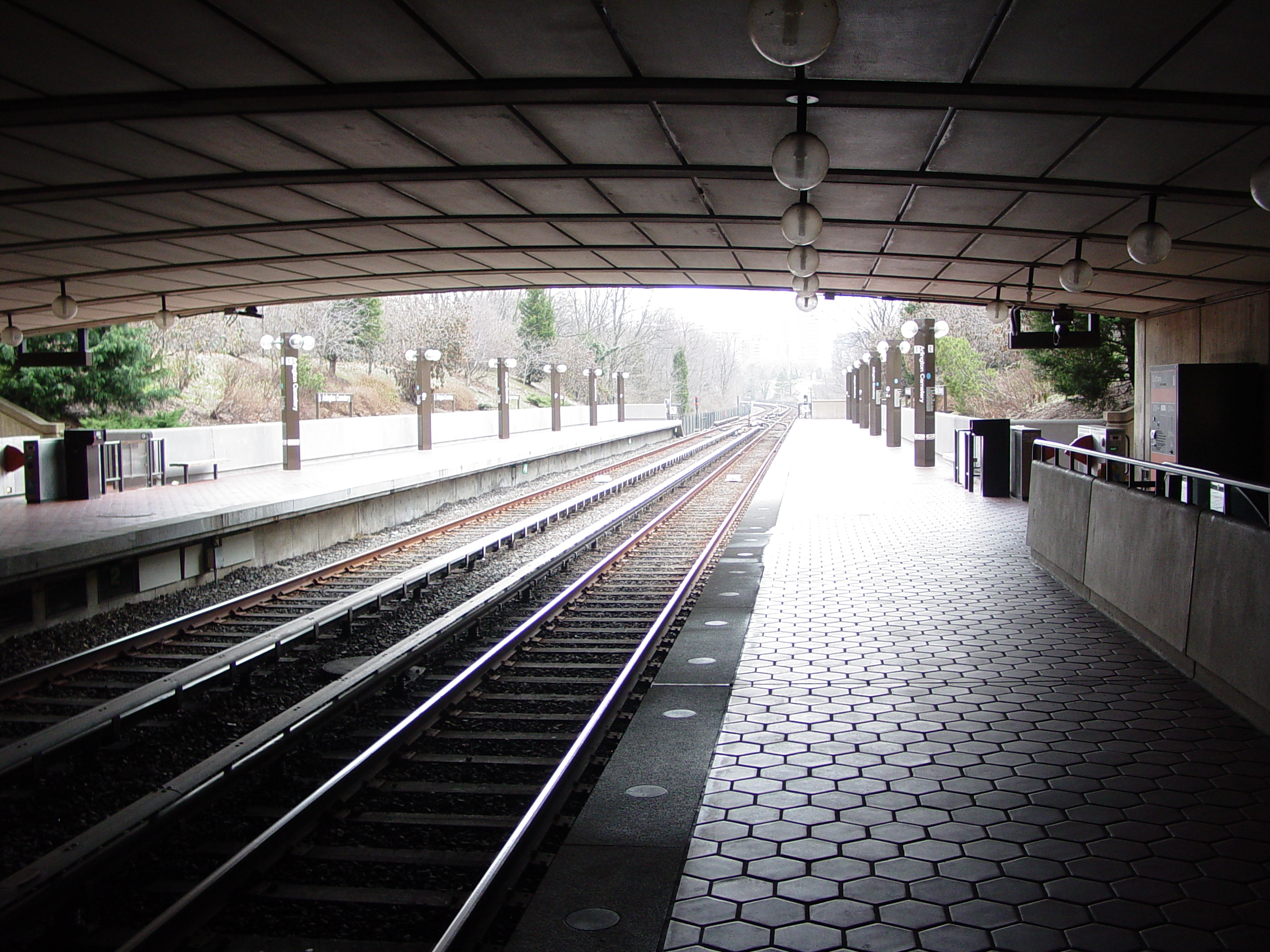 Arlington Cemetery station, looking towards Rosslyn.